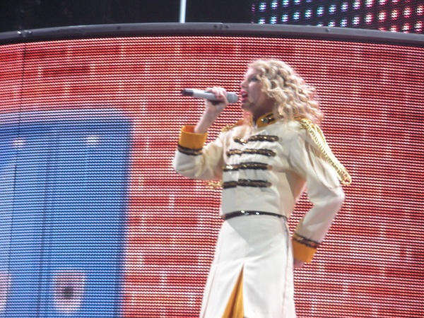 Country singer Taylor Swift performing during her concert in Foxboro, Massachusetts as part of her Fearless Tour in 2010.